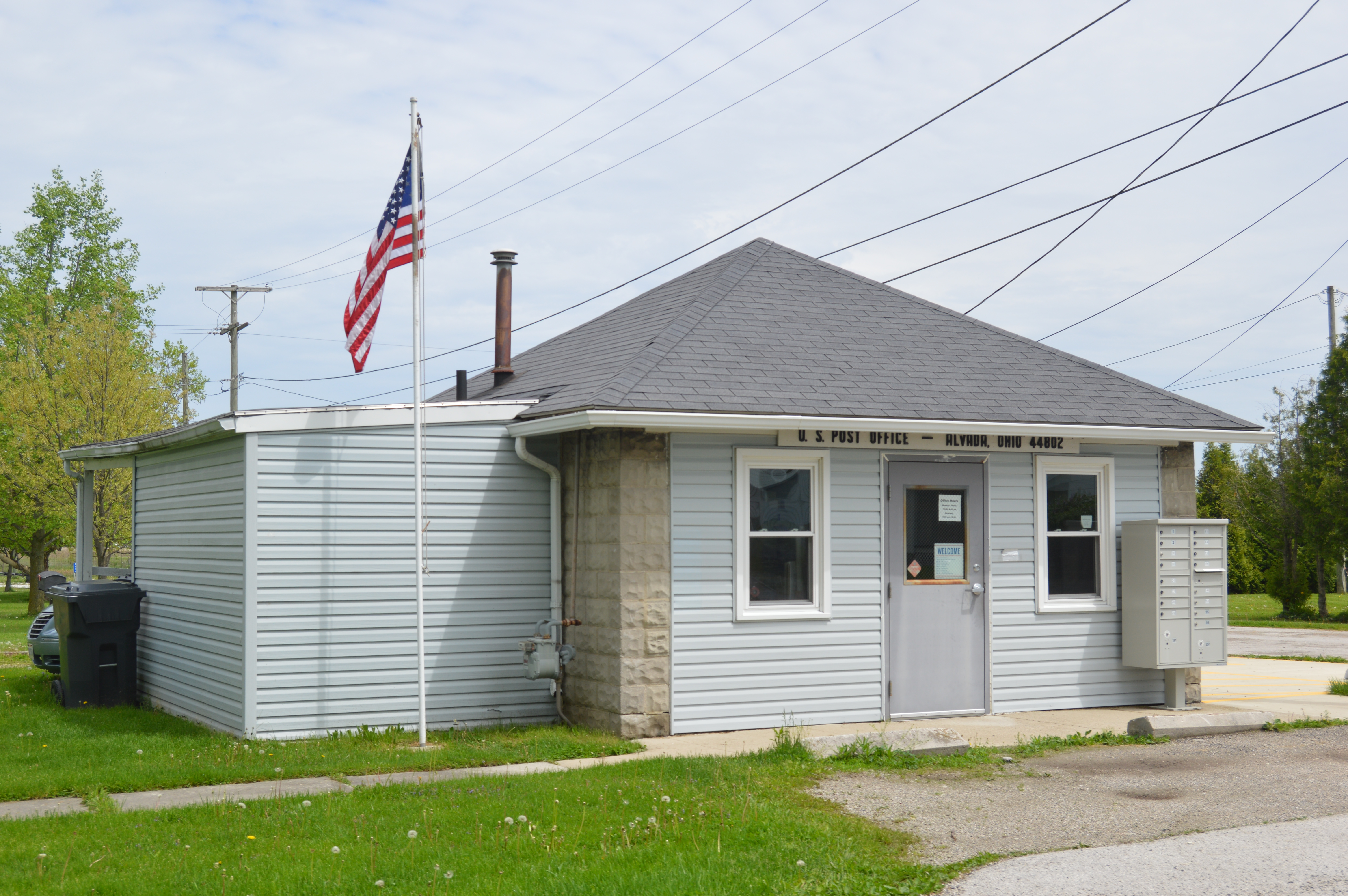 Front and western side of the Alvada post office, located at 12125 W. County Road 10 in Alvada, Ohio, United States.